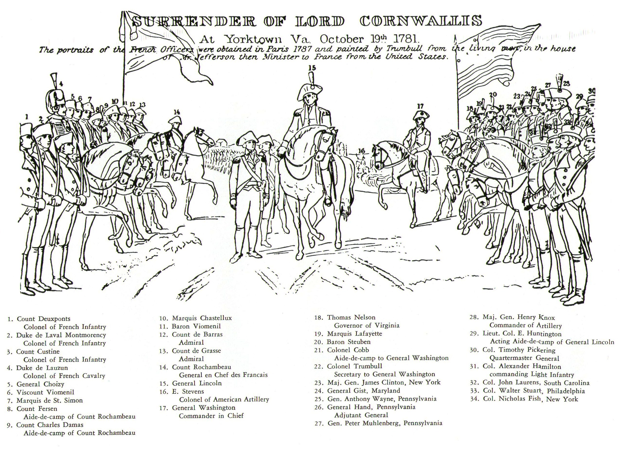 A key to John Trumbull's Surrender of Lord Cornwallis